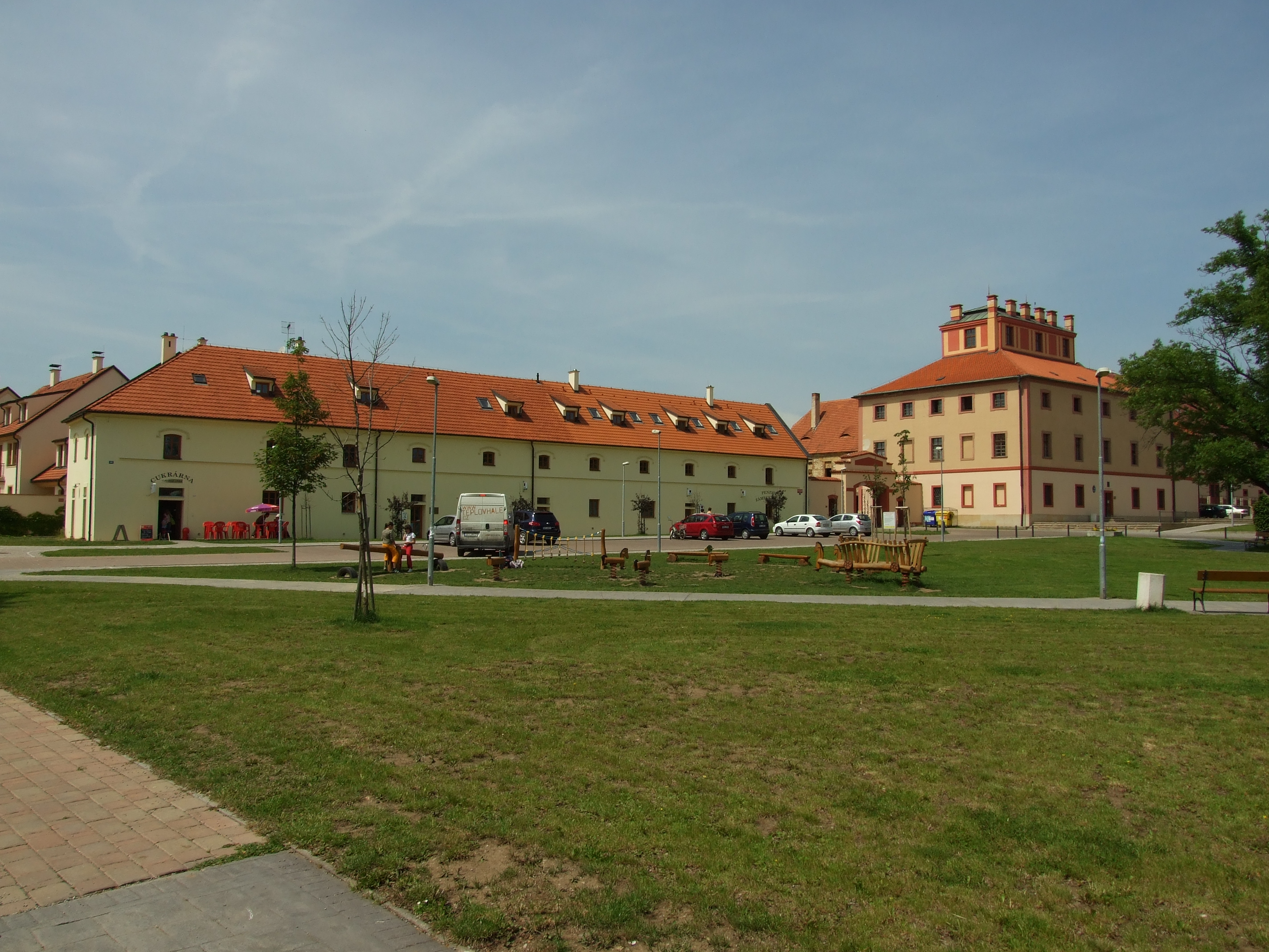 Town of Hostivice, Prague-West District, Central Bohemian region, the Czech Republic. A chateau.